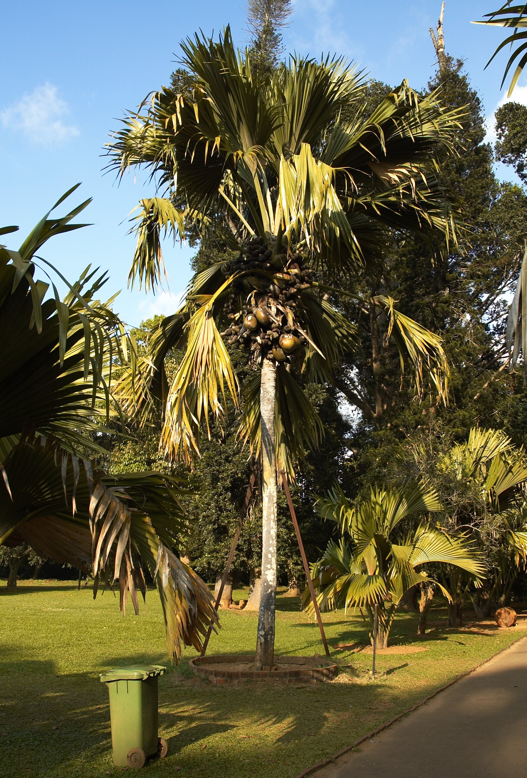 Coco de mer in the botanic garden at Peradenia, a suburb of Kandy (Sri Lanka).